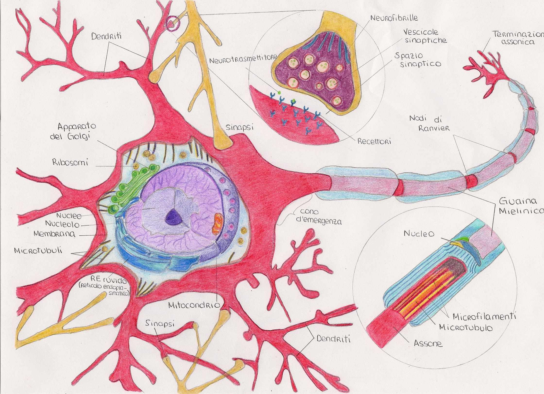 il neurone